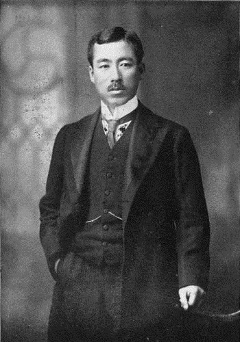 Sukehiro Ito